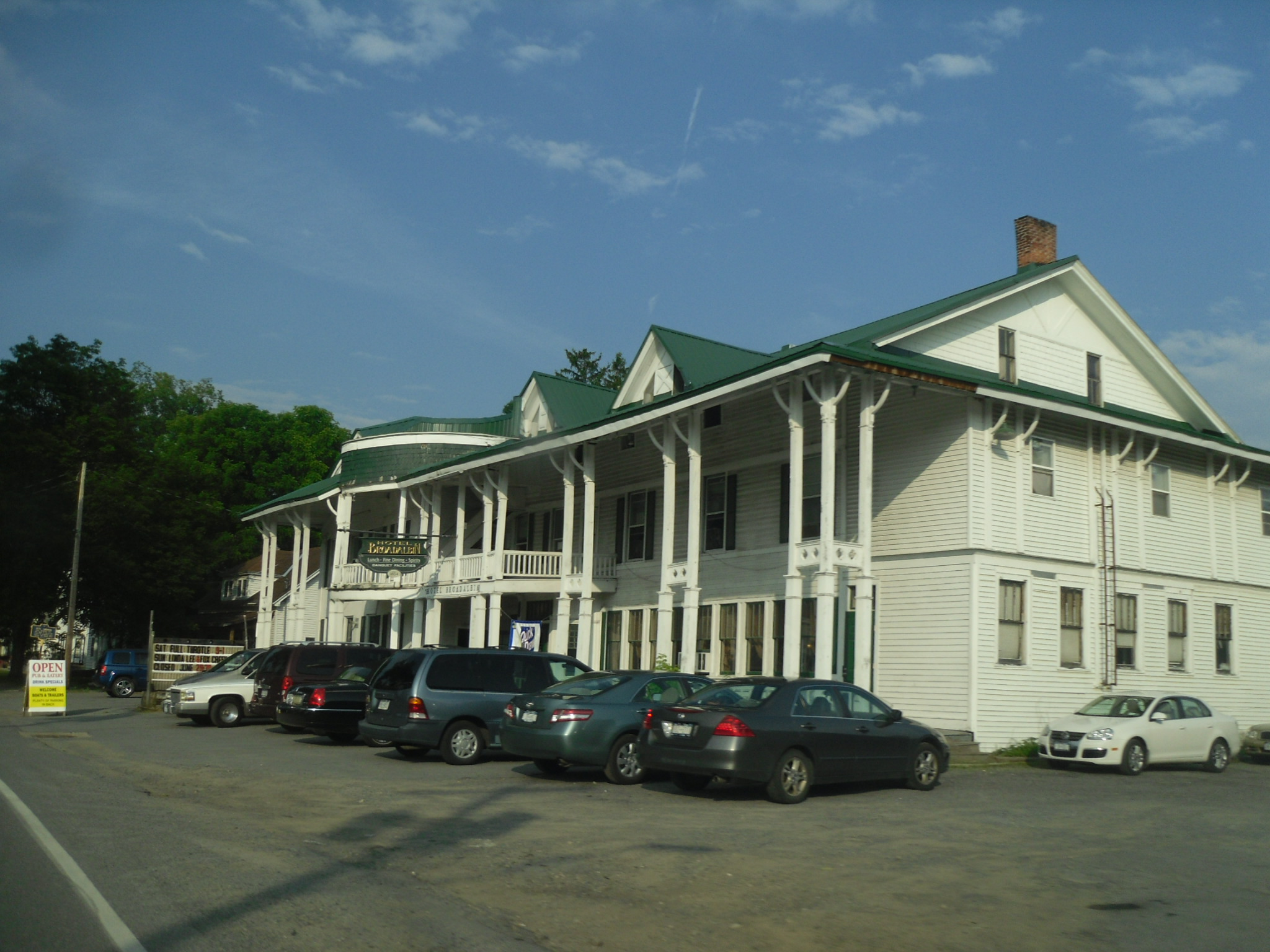 Broadalbin, New York